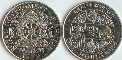 Two Bhutanese one ngultrum coins. Category:Coins of Bhutan